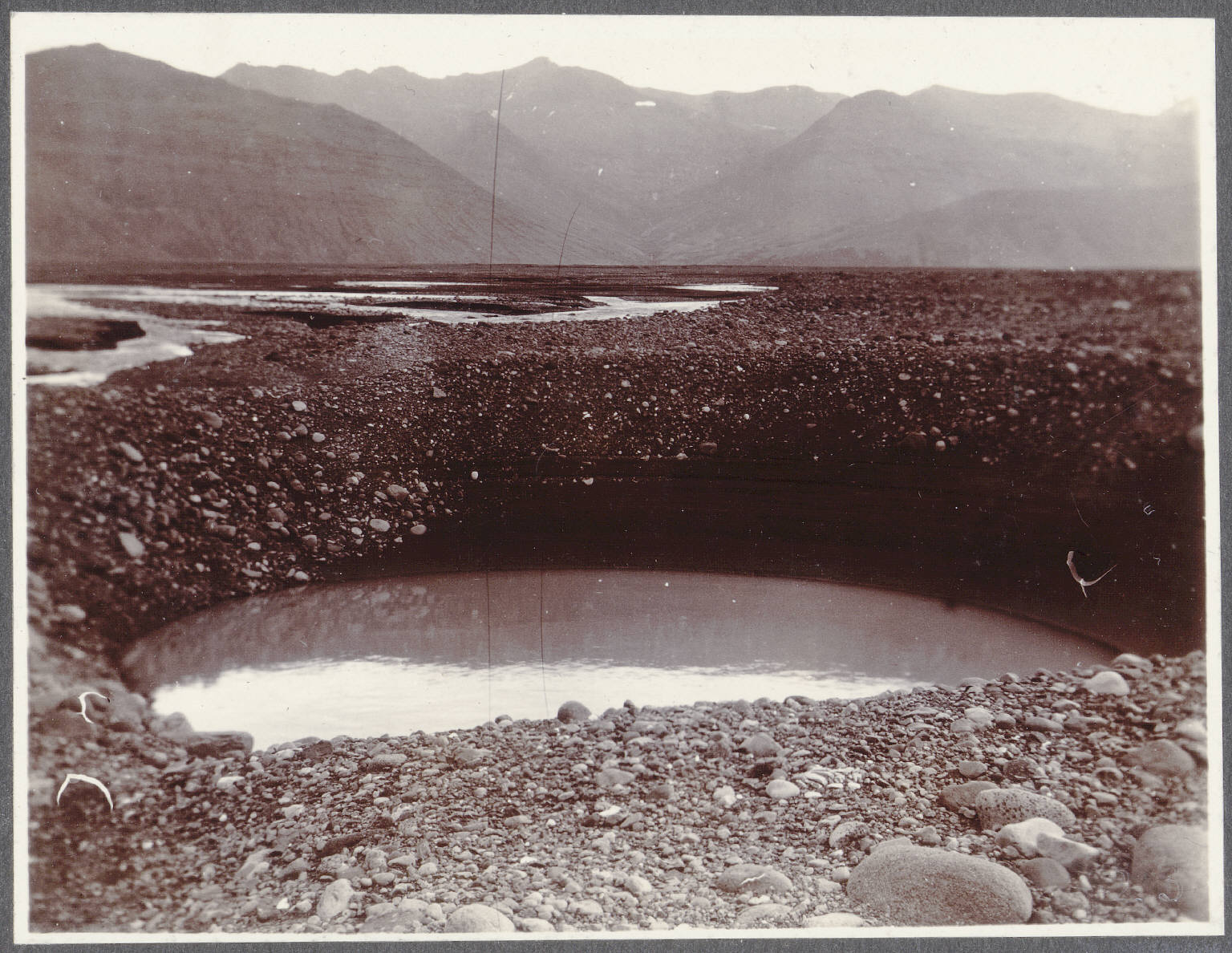 Collection: Icelandic and Faroese Photographs of Frederick W.W. Howell, Cornell University Library Title: Skeiðarársandur. Ice hole. Date: ca. 1900 Place: Skeiðarársandur (Iceland) Medium: collodion print Repository: Fiske Icelandic Collection, Rare & Manuscript Collections, Cornell University Library Accession: 1923.3.57 URL: Persistent URI: There are no known U.S. copyright restrictions on this image. The digital file is owned by the Cornell Univeristy Library which is making it freely available with the request that, when possible, the Library be credited as its source. We had some help with the geocoding from Web Services by Yahoo!